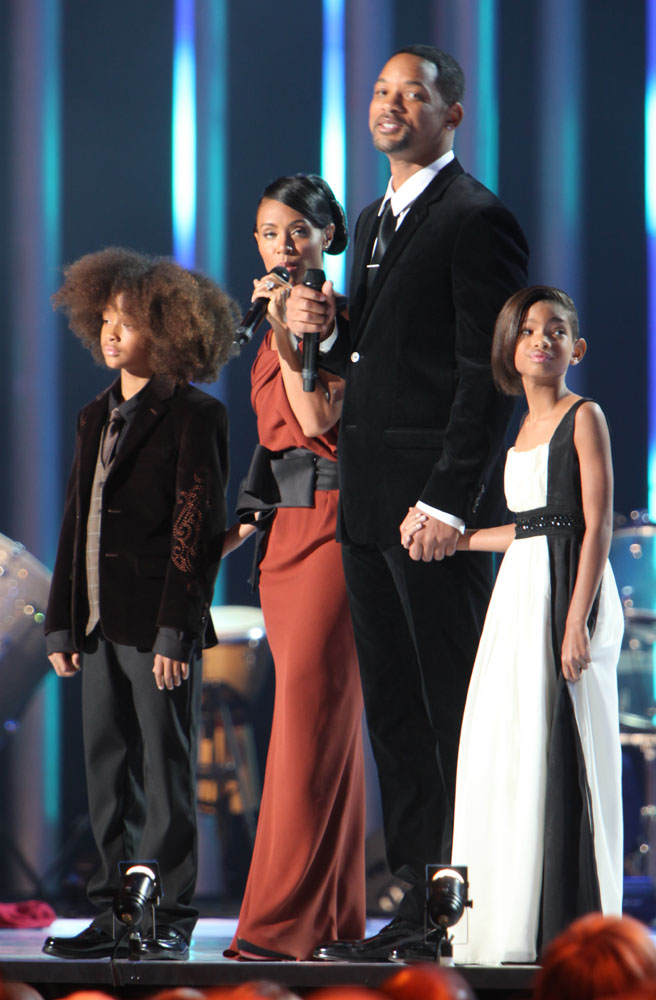 Will Smith and Jada Pinkett Smith with their children Jaden and Willow at The Nobel Peace Price Concert 2009